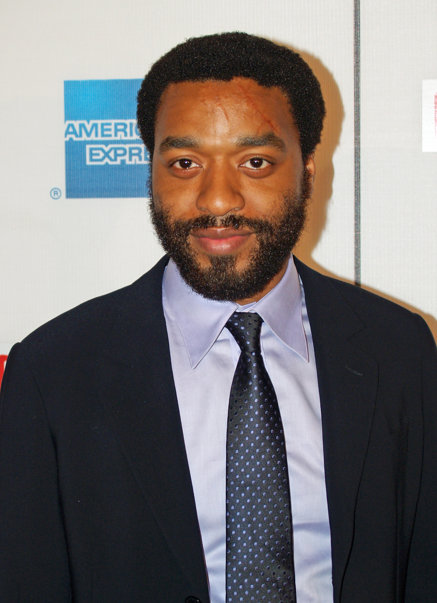 Chiwetel Ejiofor at the premiere of Redbelt at the 2008 Tribeca Film Festival.